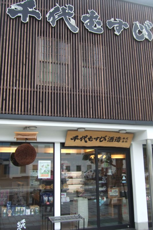 Sake brewery shop Chiyomusubi